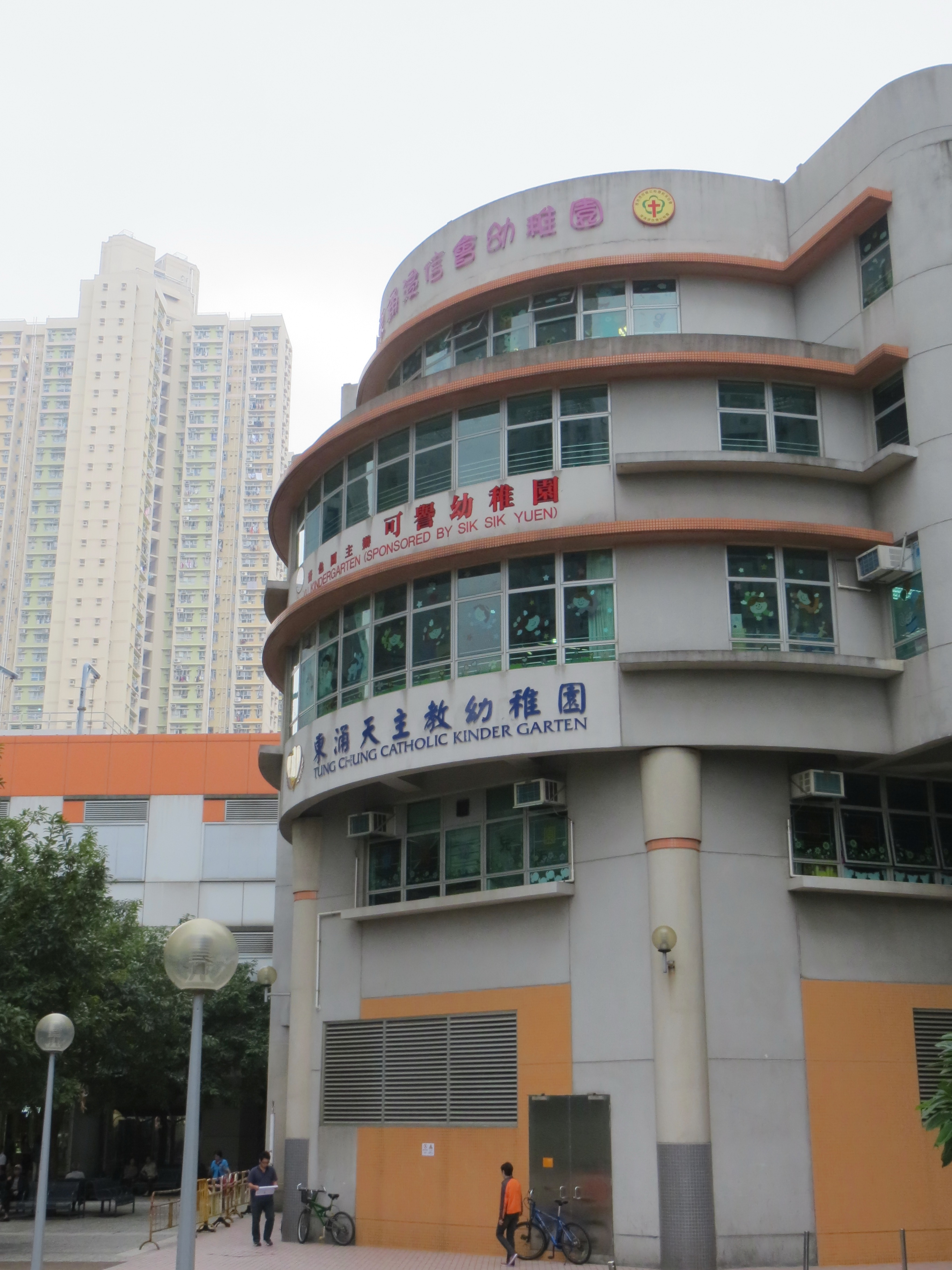 Three of the several kindergartens in Yat Tung Estate, Tung Chung, Lantau Island, Hong Kong. Tung Chung Catholic Kindergarten, Ho Yu Kindergarten (Sponsored by Sik Sik Yuen), and Tung Chung Baptist Kindergarten.